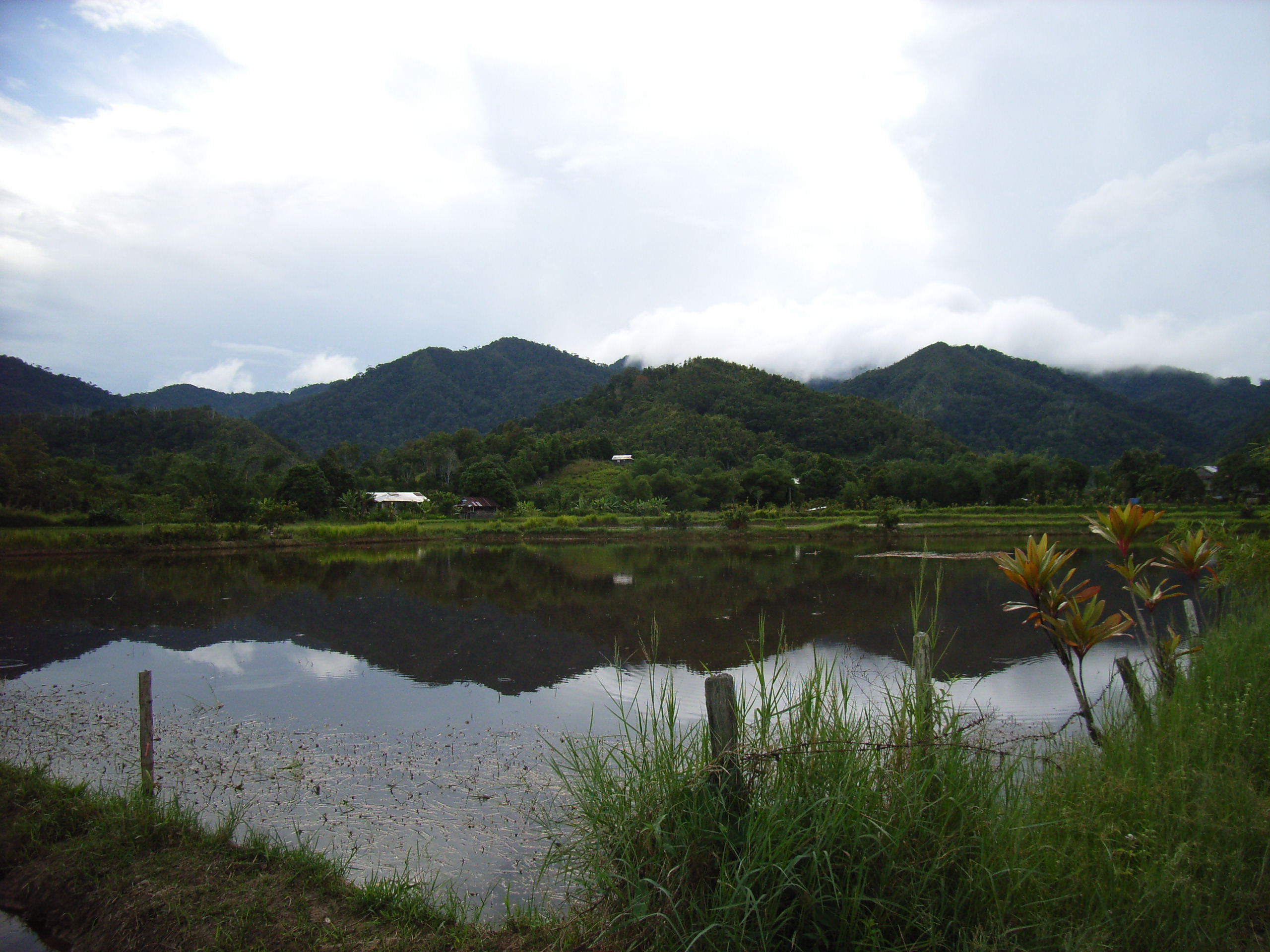 View of Bario village, Sarawak